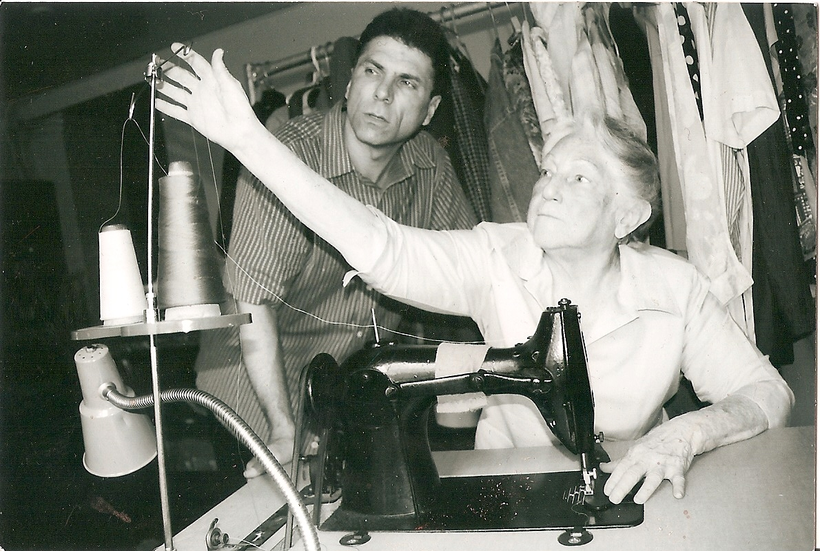 Author: Nelson Denis Source: Nelson Denis.